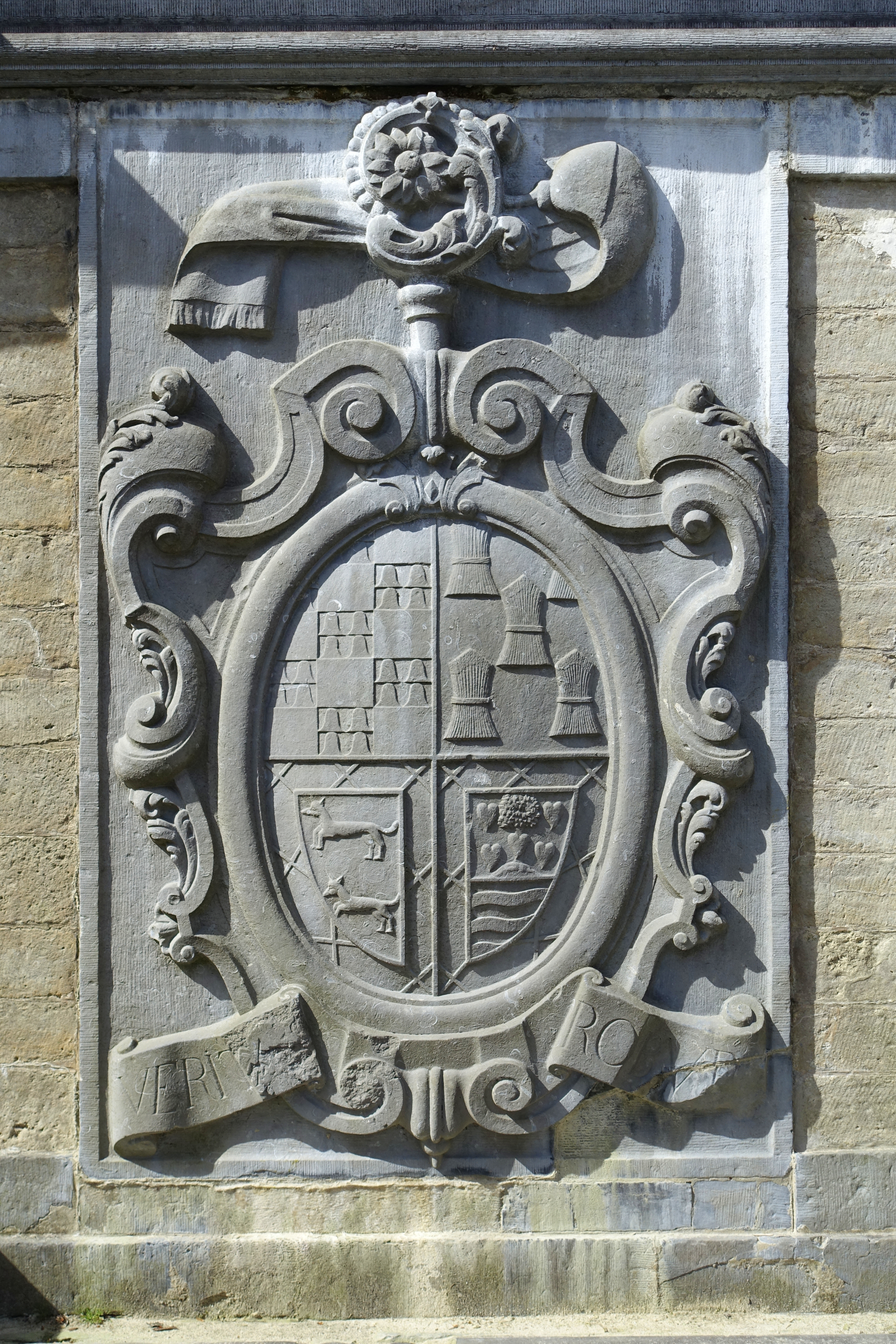 Weapons of the Abbess Louise Delliano y Velasco (Gardens - La Cambre Abbey - Brussels, Belgium)